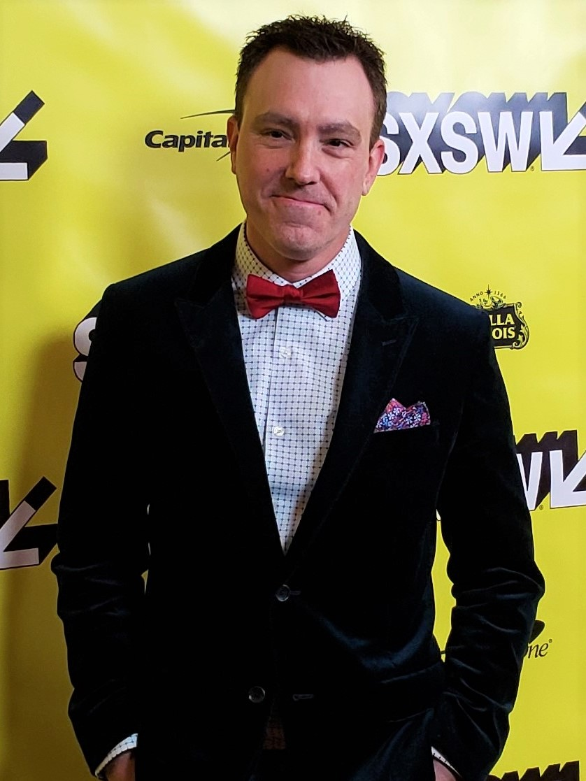 Tobias Iaconis at the premiere of The Curse of La Llorono at SXSW in 2019